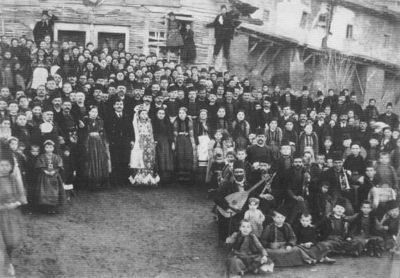 Traditionnal marriage at Kleisoura, Greece. Beginning of the 20th Century.